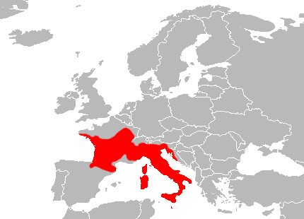 Hierophis viridiflavus range map.